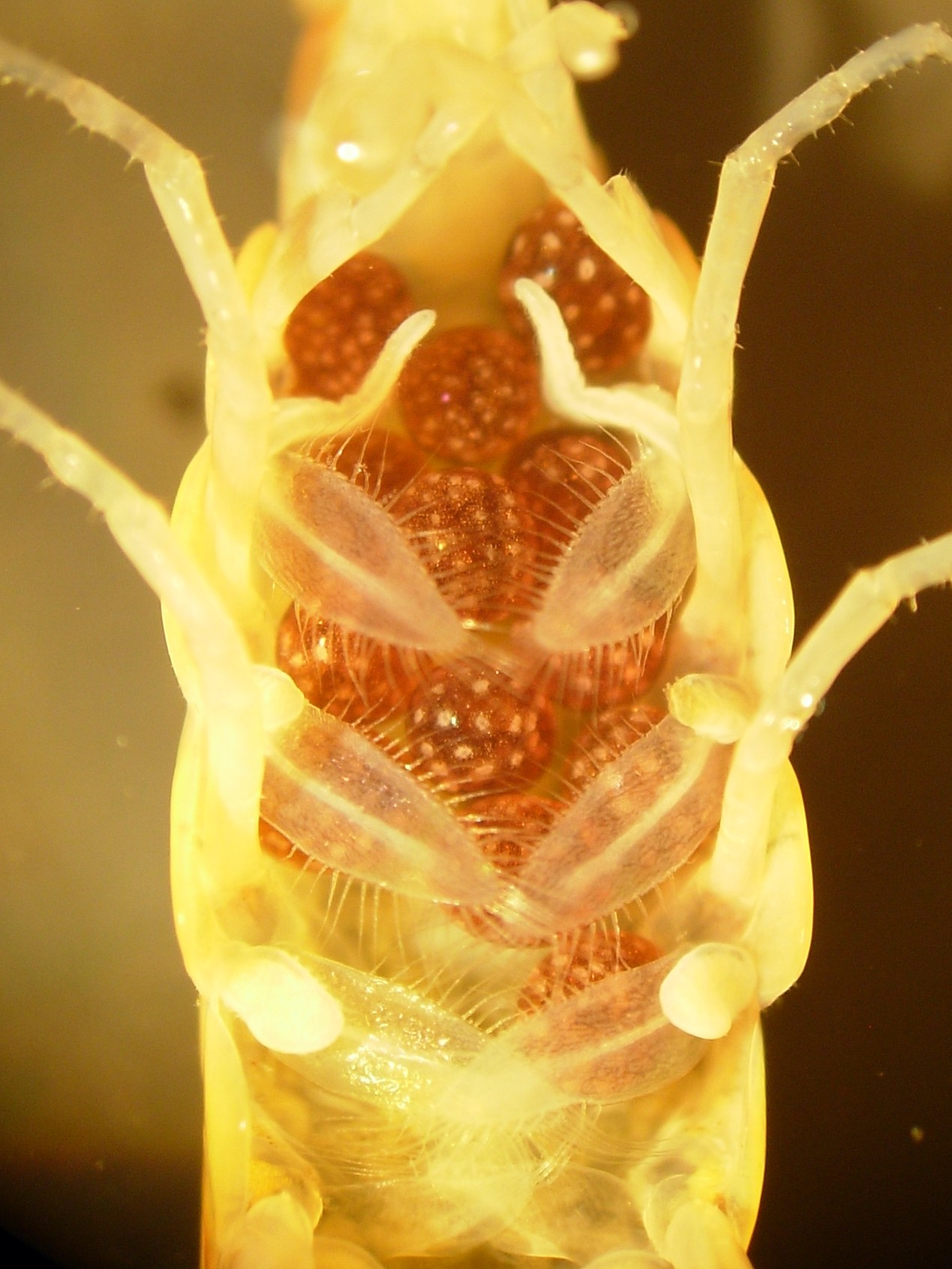 Orchestia gammarellus female showing eggs protected by oostegites